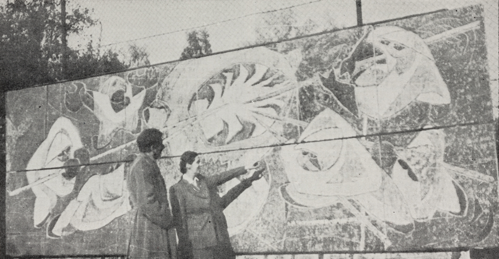 Helena Hussarska and Roman Hussarski, Polish artists, and ceramic art work inpiropiktura technique named Era Żelaza (Iron era)